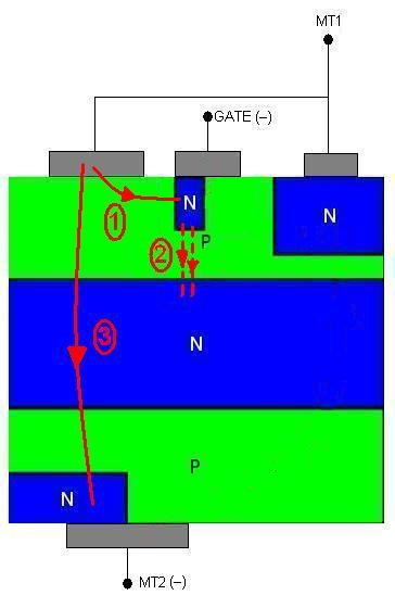 Triggering of a TRIAC in the third quadrant (Q-III)